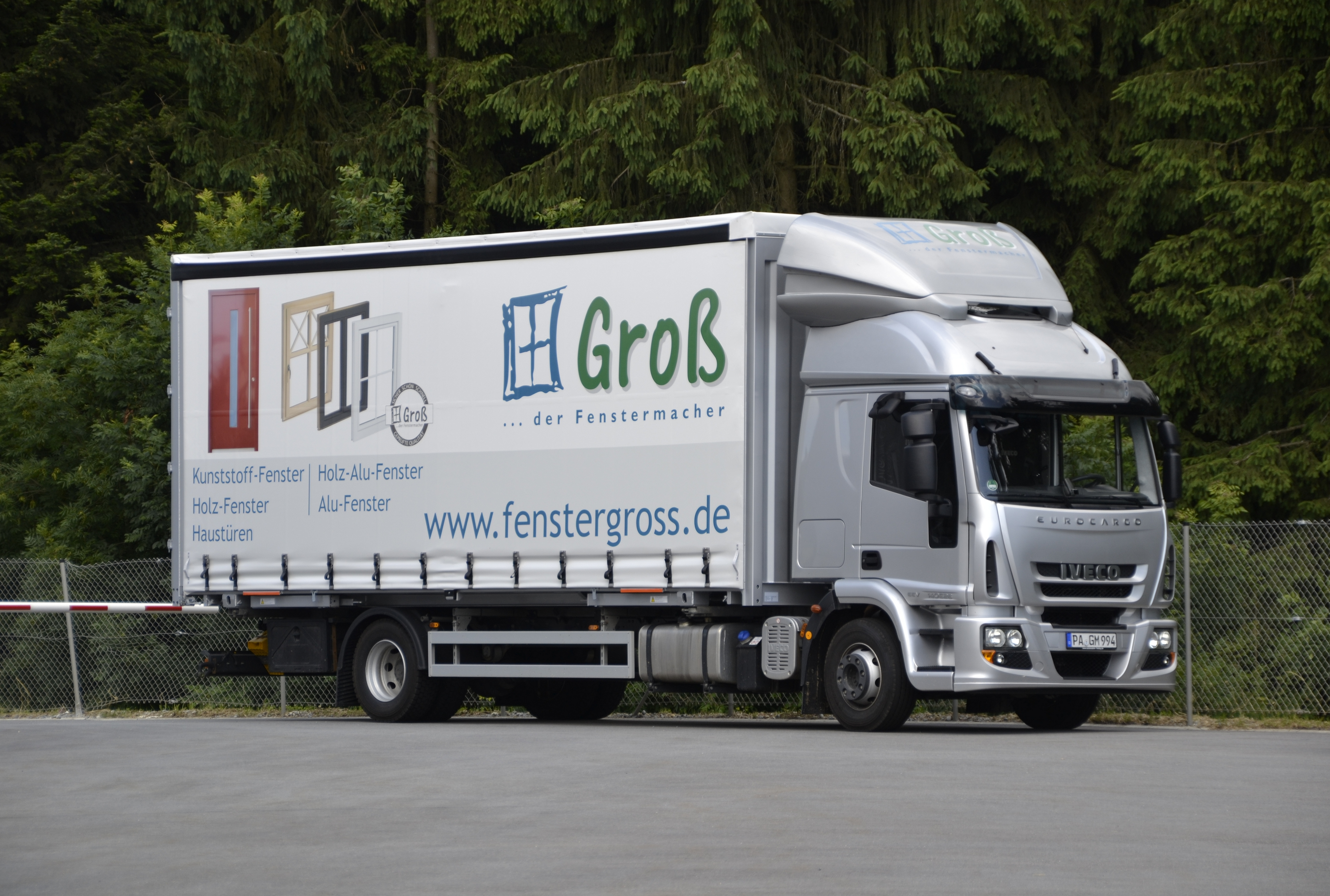 IVECO Eurocargo truck.